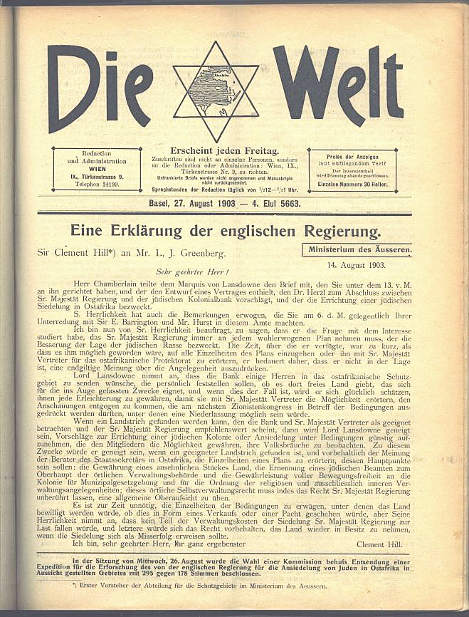 A declaration from the british government, written by Sir Clement Lloyd Hill, addressed to L. J. Greenberg, printed in Die Welt